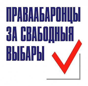 Public Campaign «Human Rights Defenders for Free Elections» in Belarus. Logo.